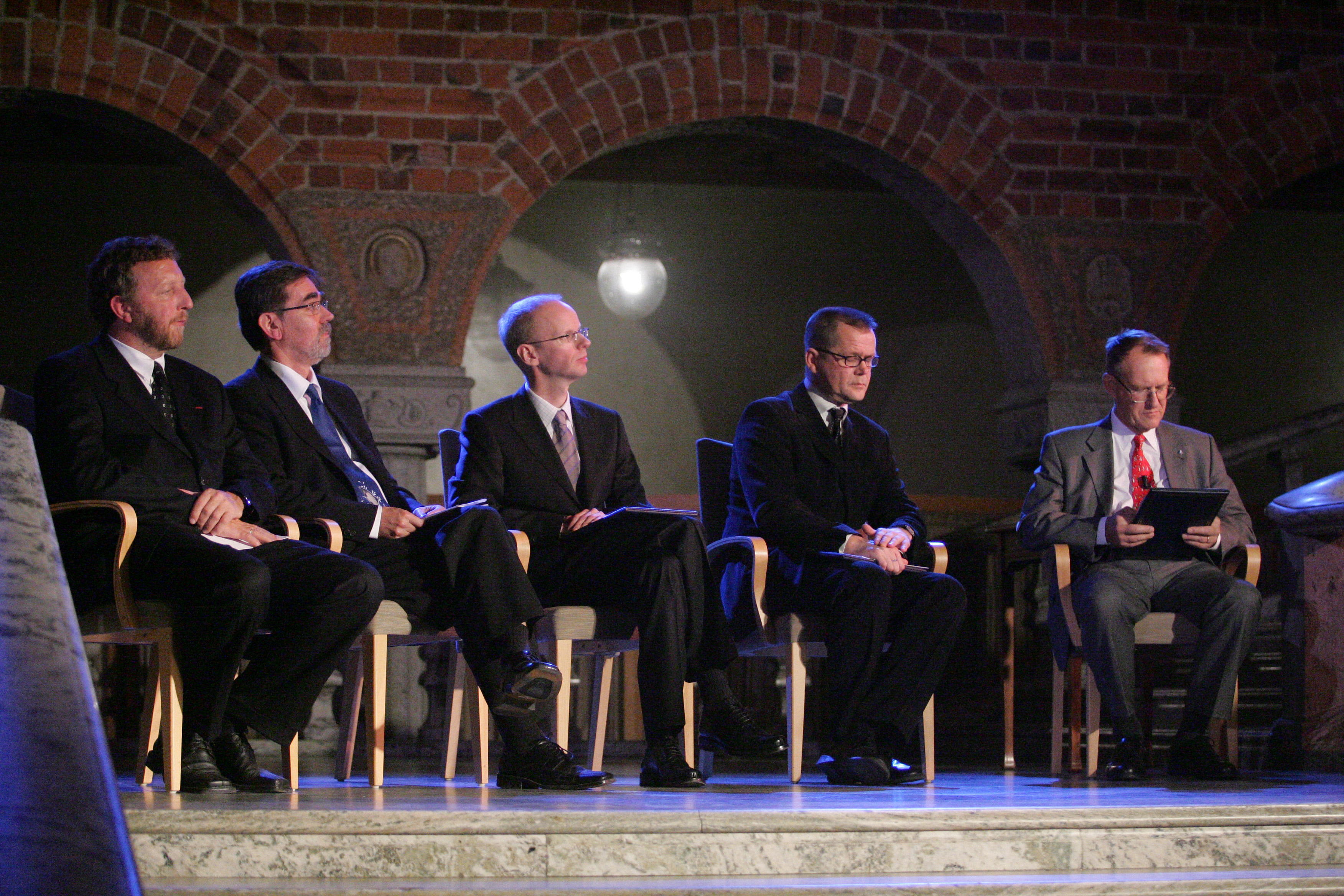 2004 års mottagare av Nordiska rådets priser Keywords: Film Prize, Literature Prize, Music Prize, Nature and Environment Prize